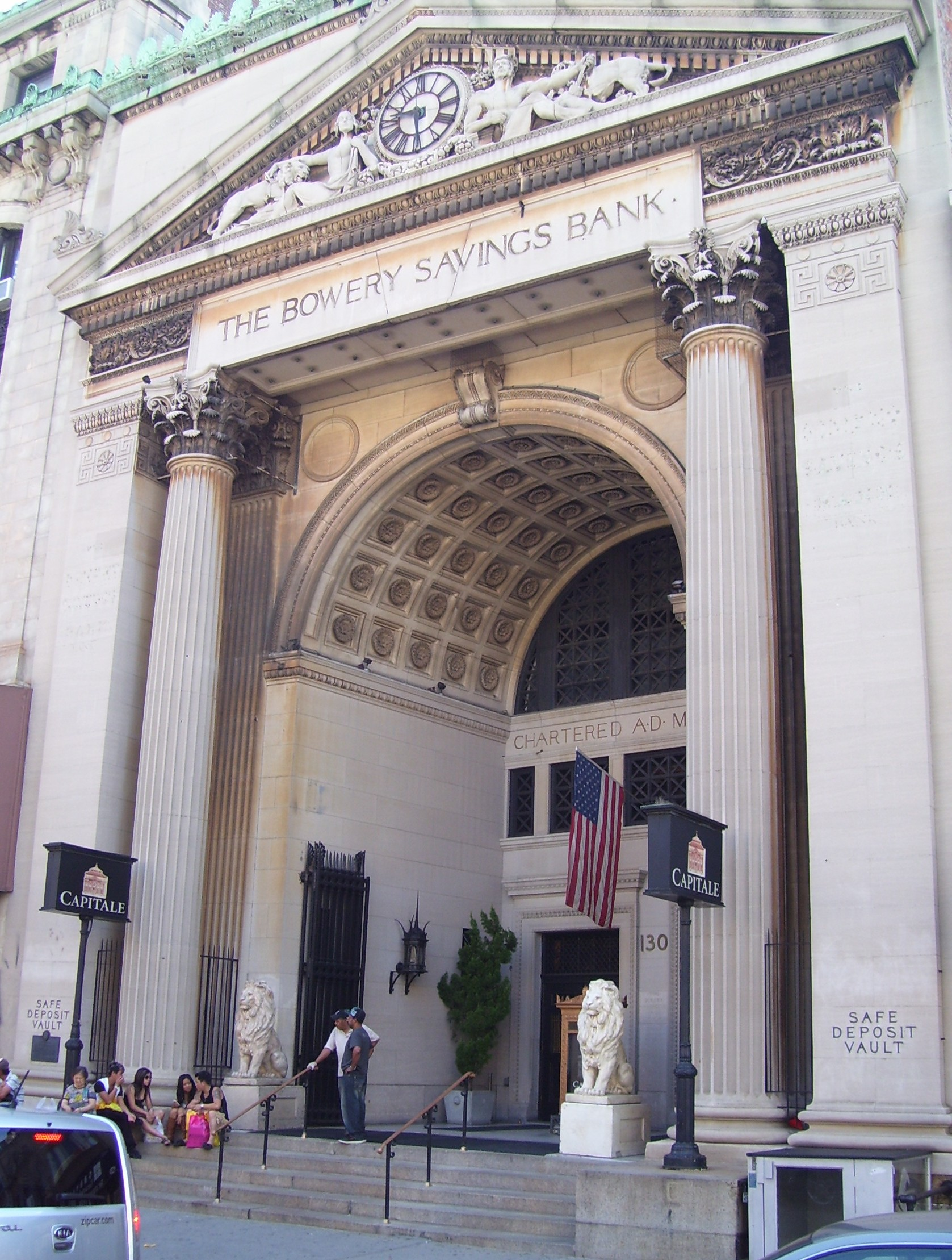 The Bowery Savings Bank at 130 Bowery between Grand and Broome Streets in Manhattan, New York was built in 1893-95 and was designed by Stanford White of McKim, Mead & White, with sculpted pediments by Frederic MacMonnies, and an interior in the style of a Roman temple. White's choice of Roman classical style for a bank building, a first, set a national trend. The "L" building, which is now a resataurant and nightclub, goes through to Elizabeth and Grand Streets. It was designated a NYC landmark in 1966, and the interior was designated in 1994. (Source: Guide to NYC Landmarks (4th ed.))